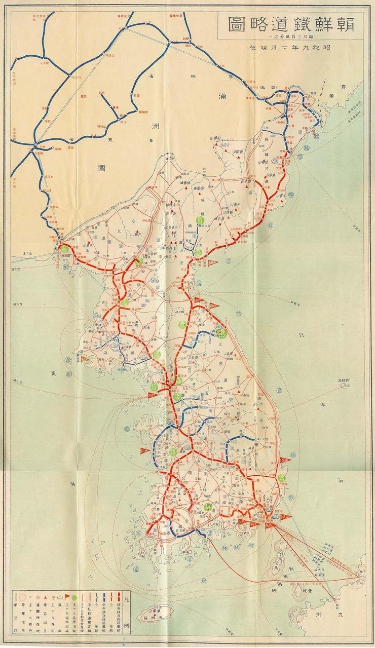 Railway map of Korea from the mid 1930s.